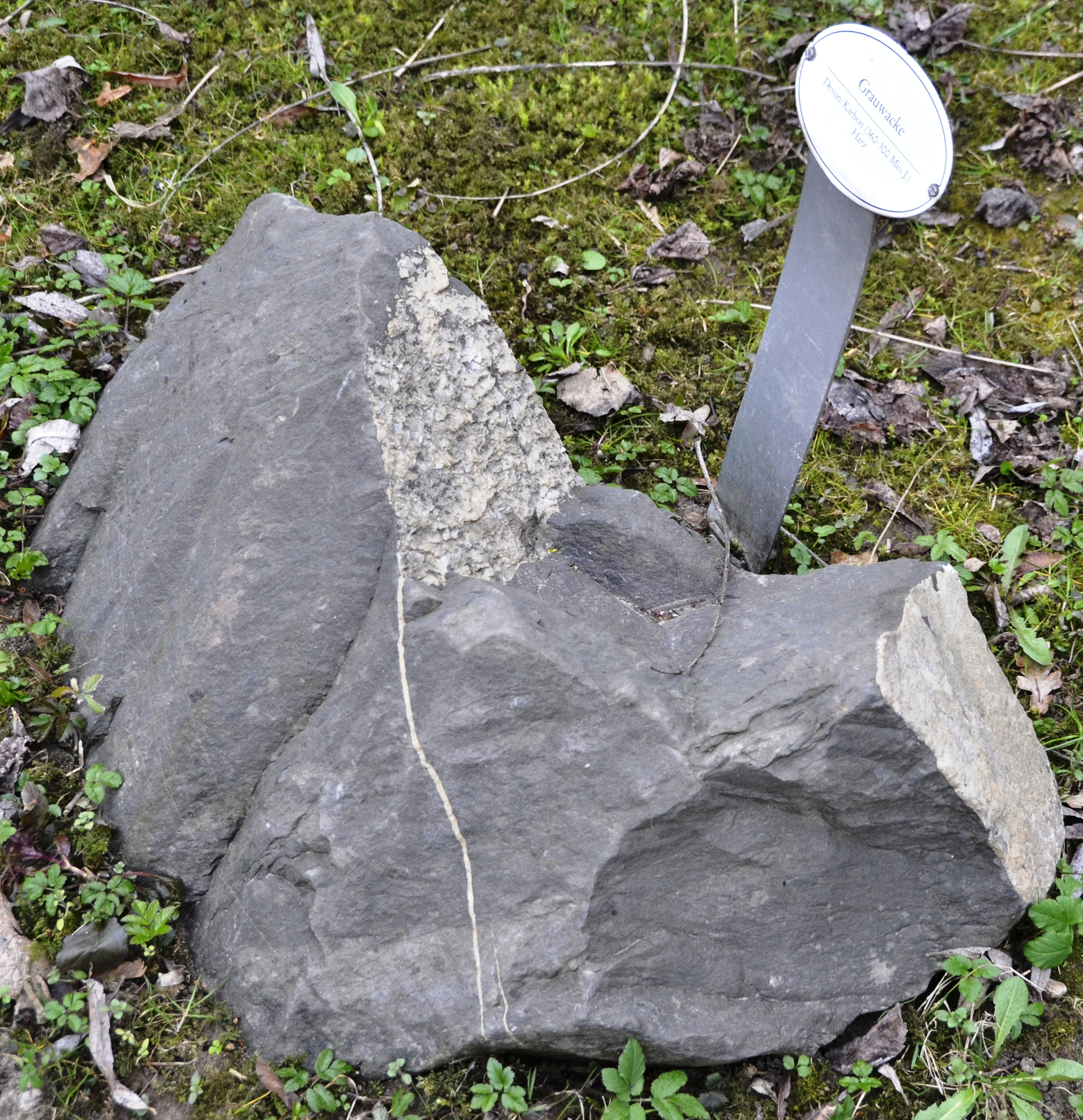 A large piece of greywacke (about 1 m in breadth) from the Upper Devonian or Lower Carboniferous of the Hartz Mts., on display at the public geological collection of the Alpine Museum in Munich. There are joint planes exposed on top of the rock and on the right side which are covered by white crystals (? calcite). The joint exposed on the top extends diagonally further down as a narrow white band.